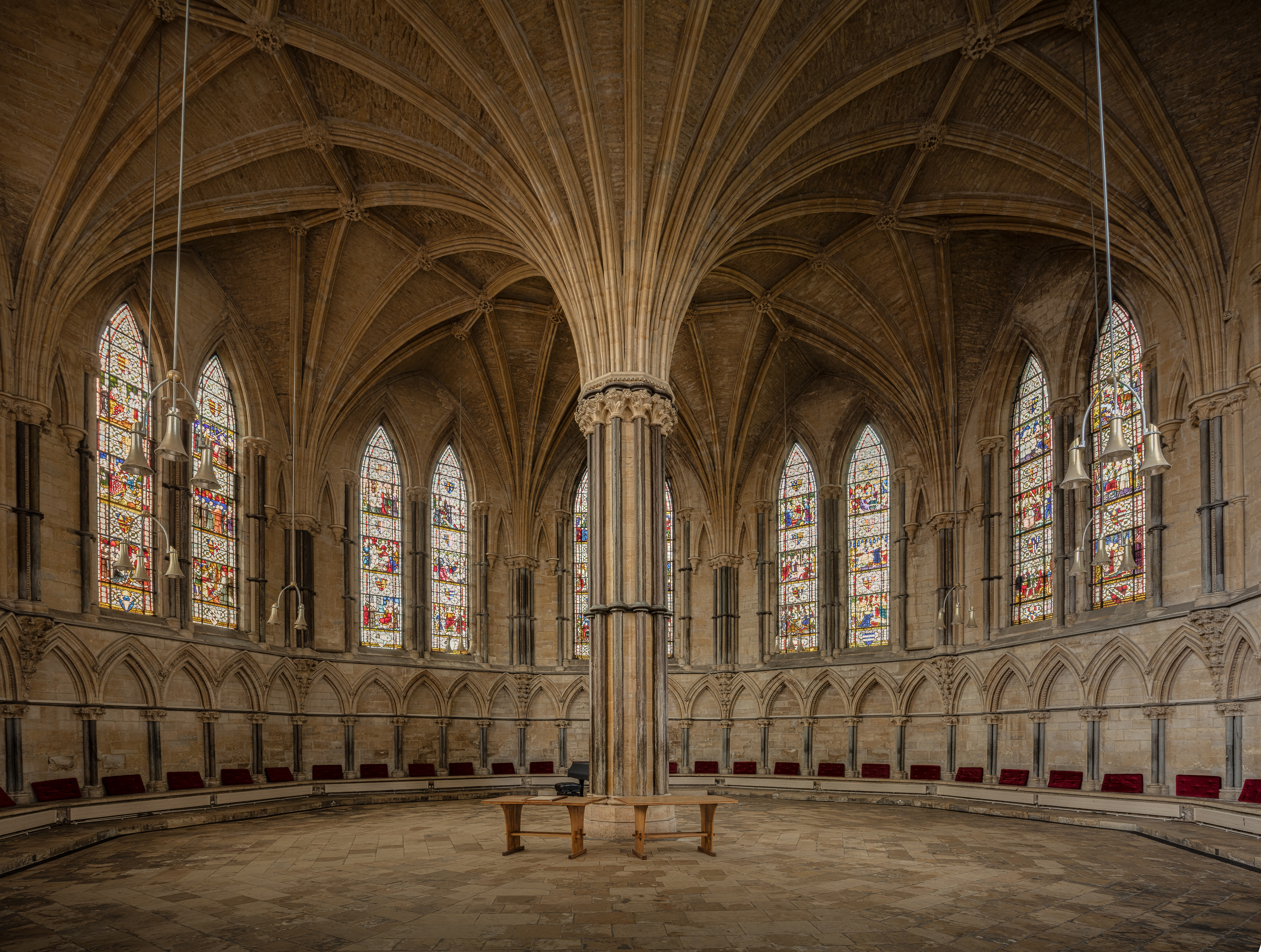 Here is an hdr photograph taken from the Chapter House inside Lincoln Cathedral. Located in Lincoln, Lincolnshire, England, UK.